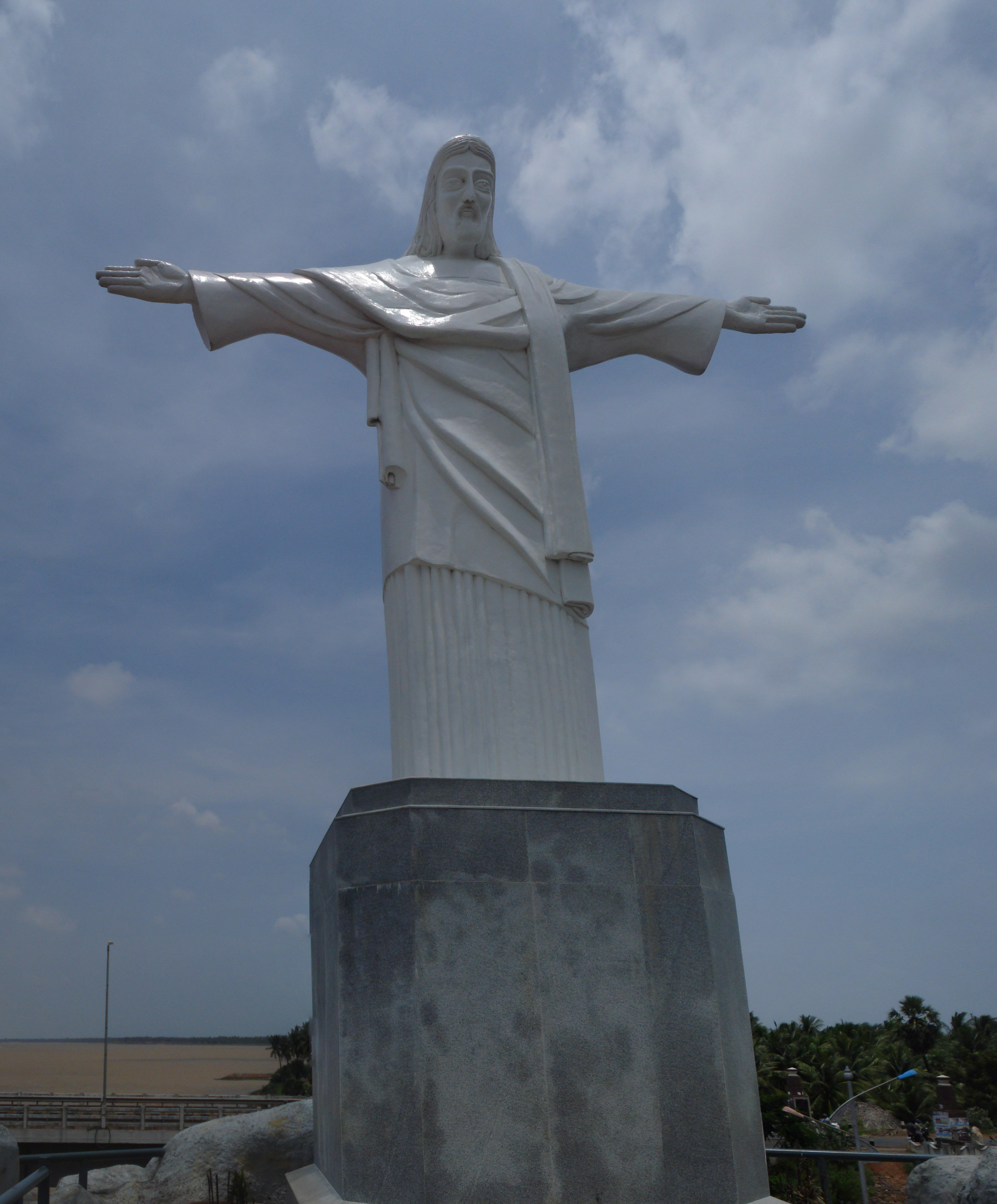 Jesus Statue, National Highway 214, Yanam, Andhra Pradesh 533464, India. Similar to one in Rio.